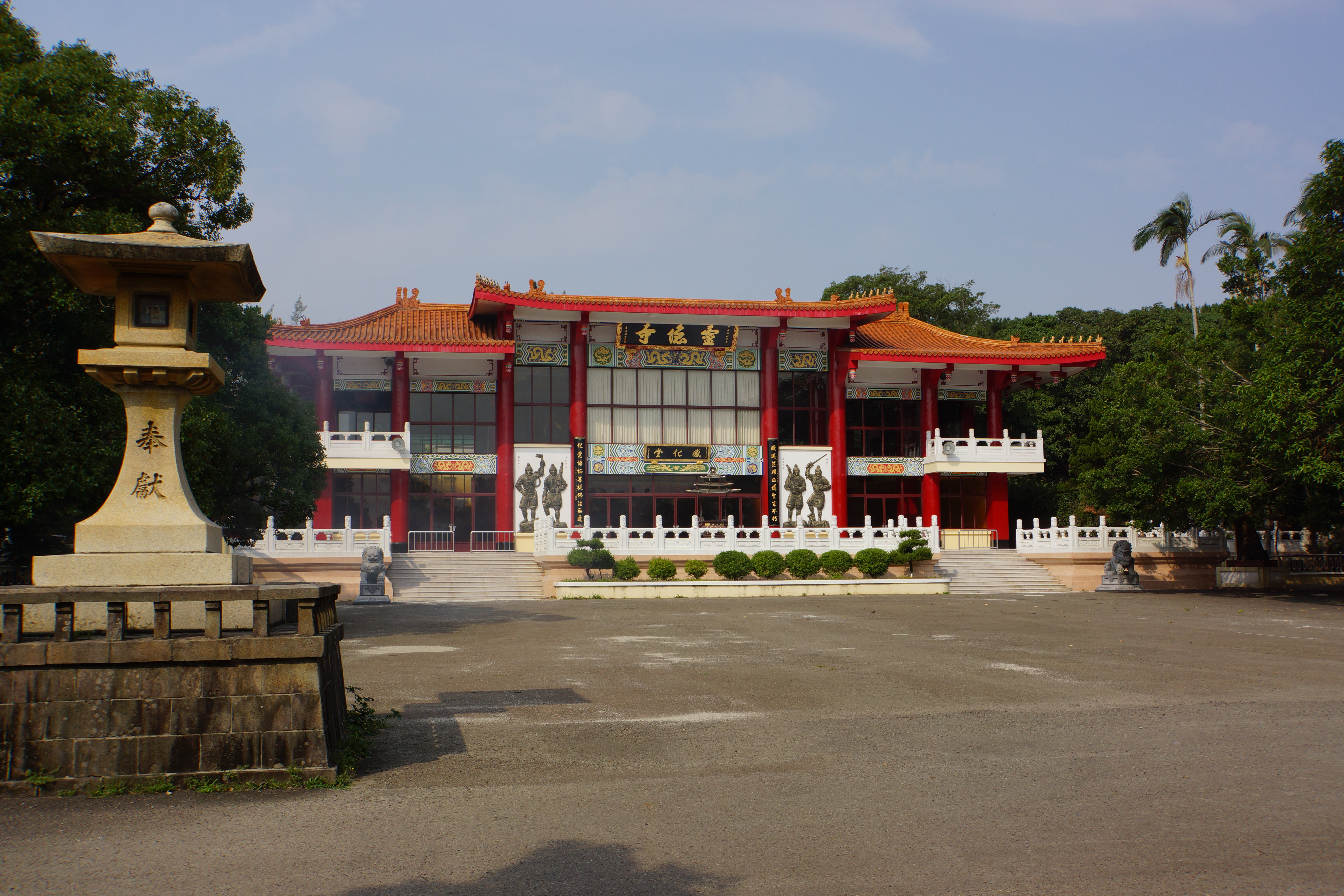 新竹靈隱寺大殿 Main Hall of Xinzhu Liugyin Temple